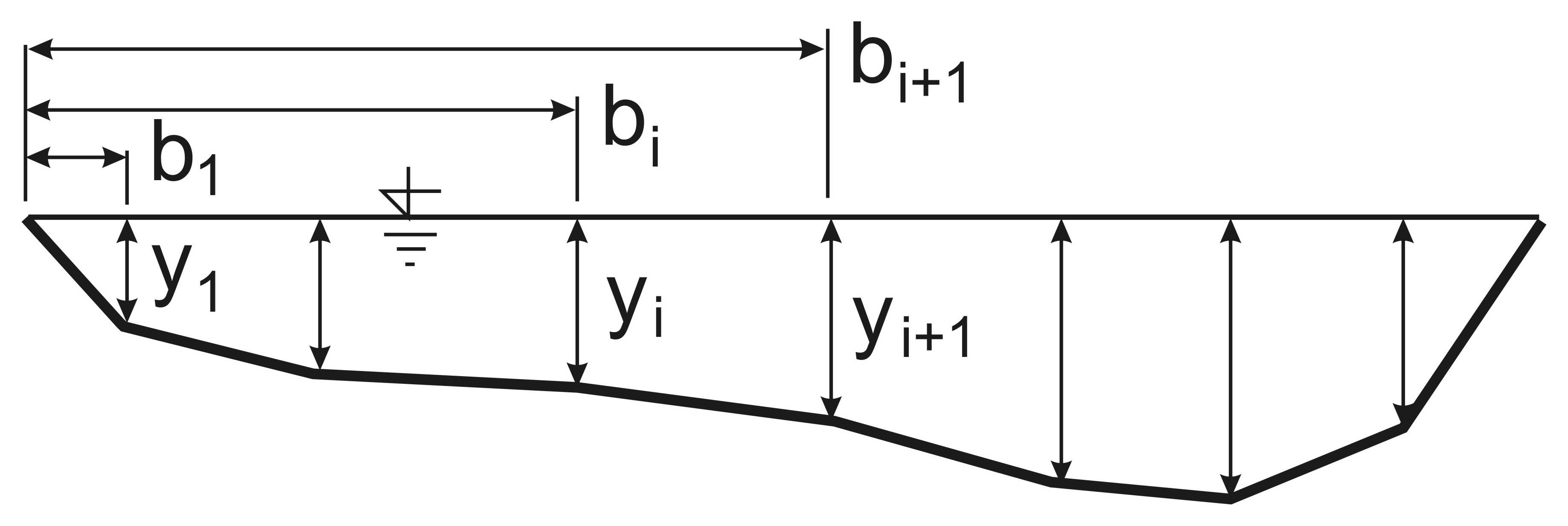 Sounding a river channel